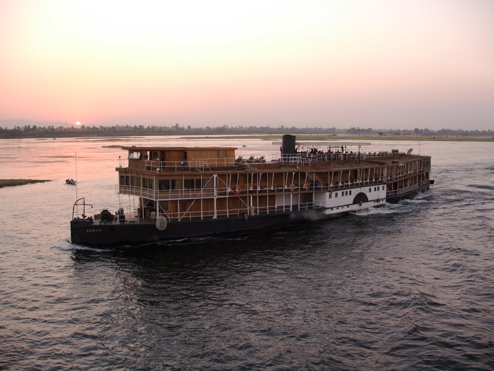 Taking during a Nile River Cruise from mv Nile Supreme chartered by Phoenix on 2008 at upper river to Aswan from 4th deck